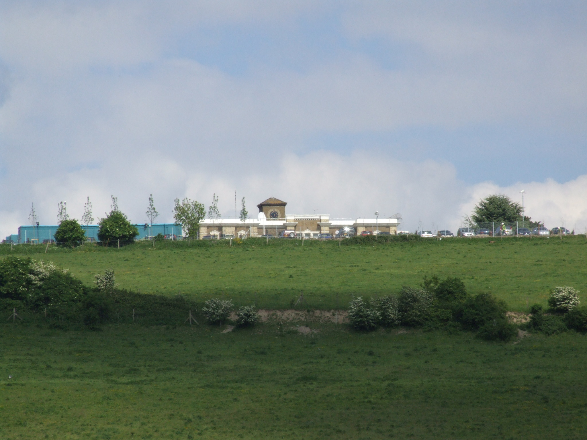 Borstal, youth offender institute viewed from the south side of the Nashenden Valley.